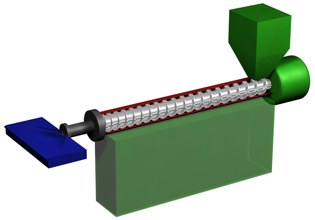 Plastic extruder with half of barrel removed to show screw. Sheet die attached with top half removed to show interior design.